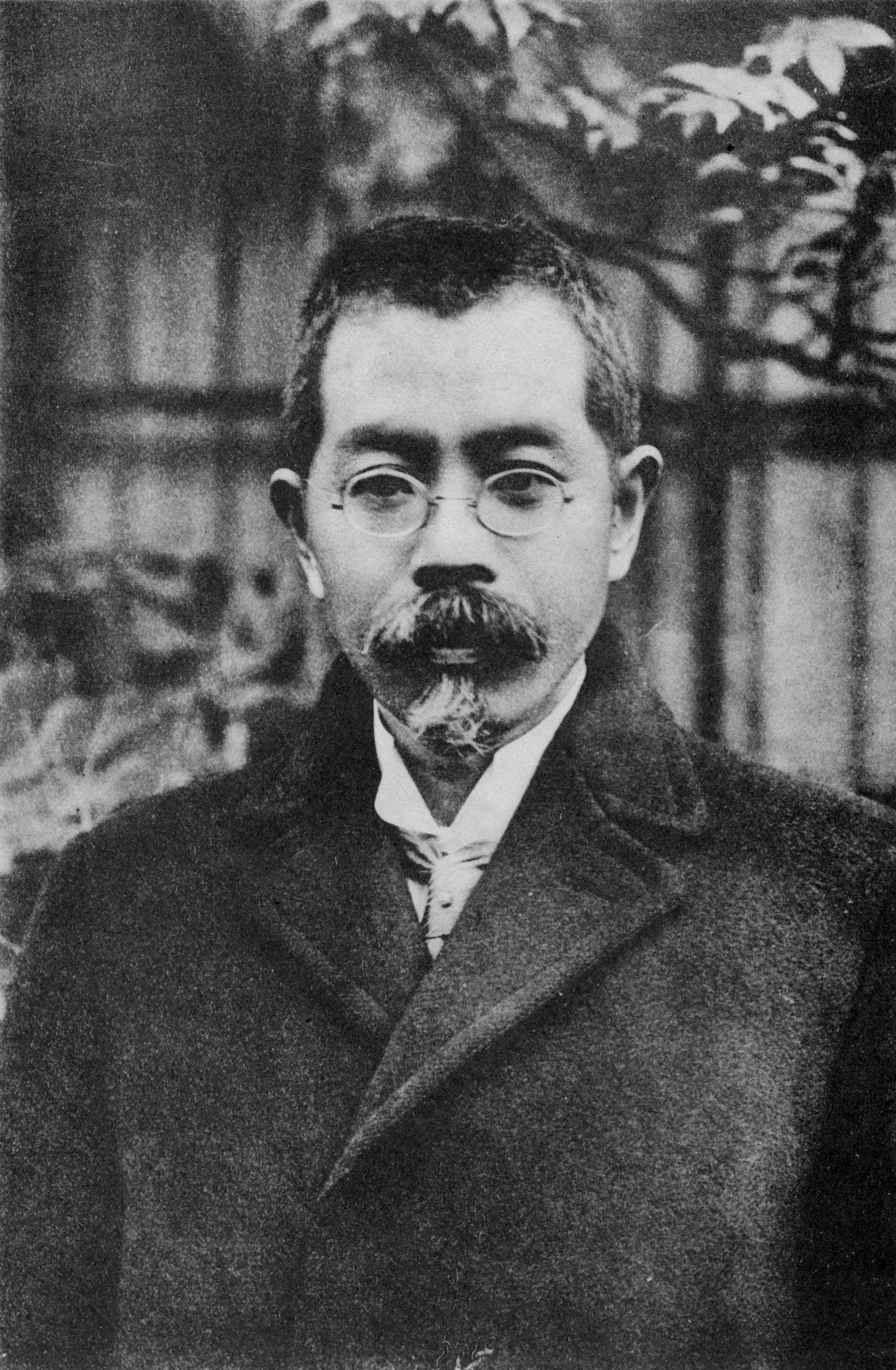 Late professor Genpachi Mitsukuri.